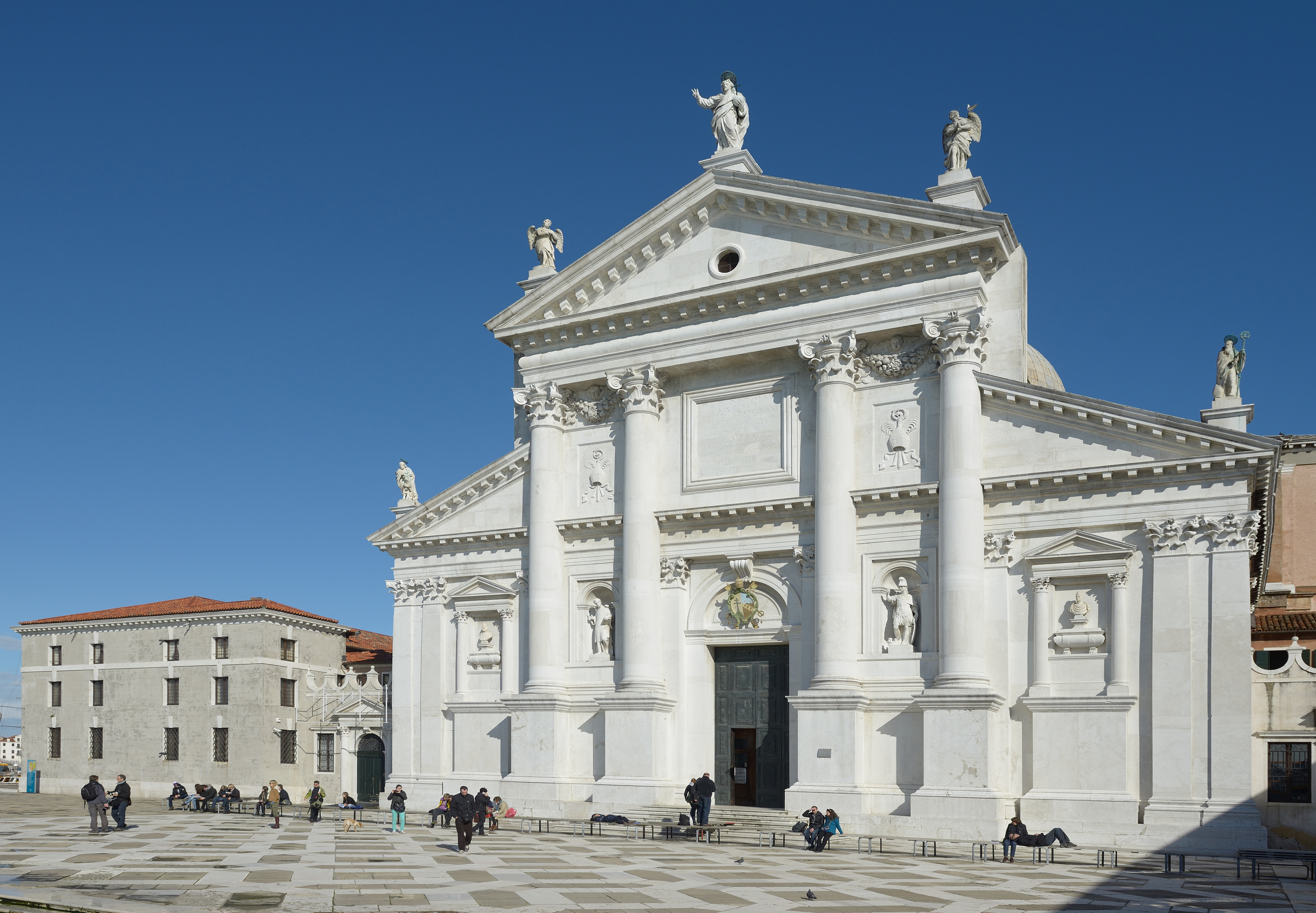 The Church of San Giorgio Maggiore in Venice.